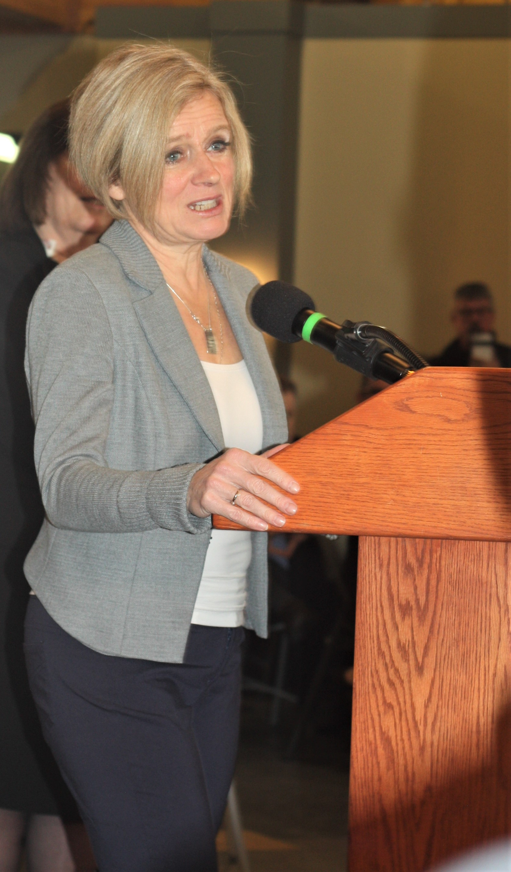 Rachel Notley speaking in December 2018